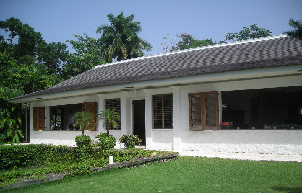 I took this picture myself, using my own camera, on Jan 3, 2011